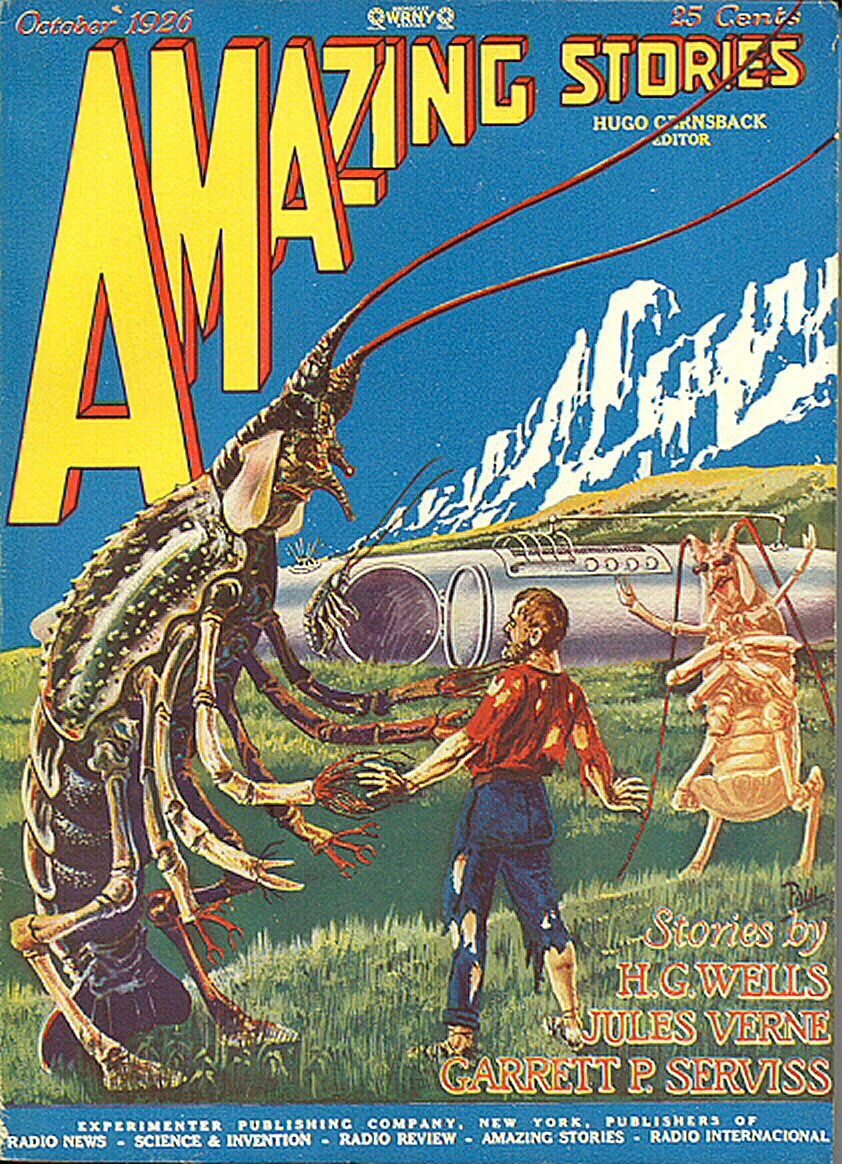 Cover of the pulp magazine Amazing Stories (October 1926, vol. 1, no. 7).